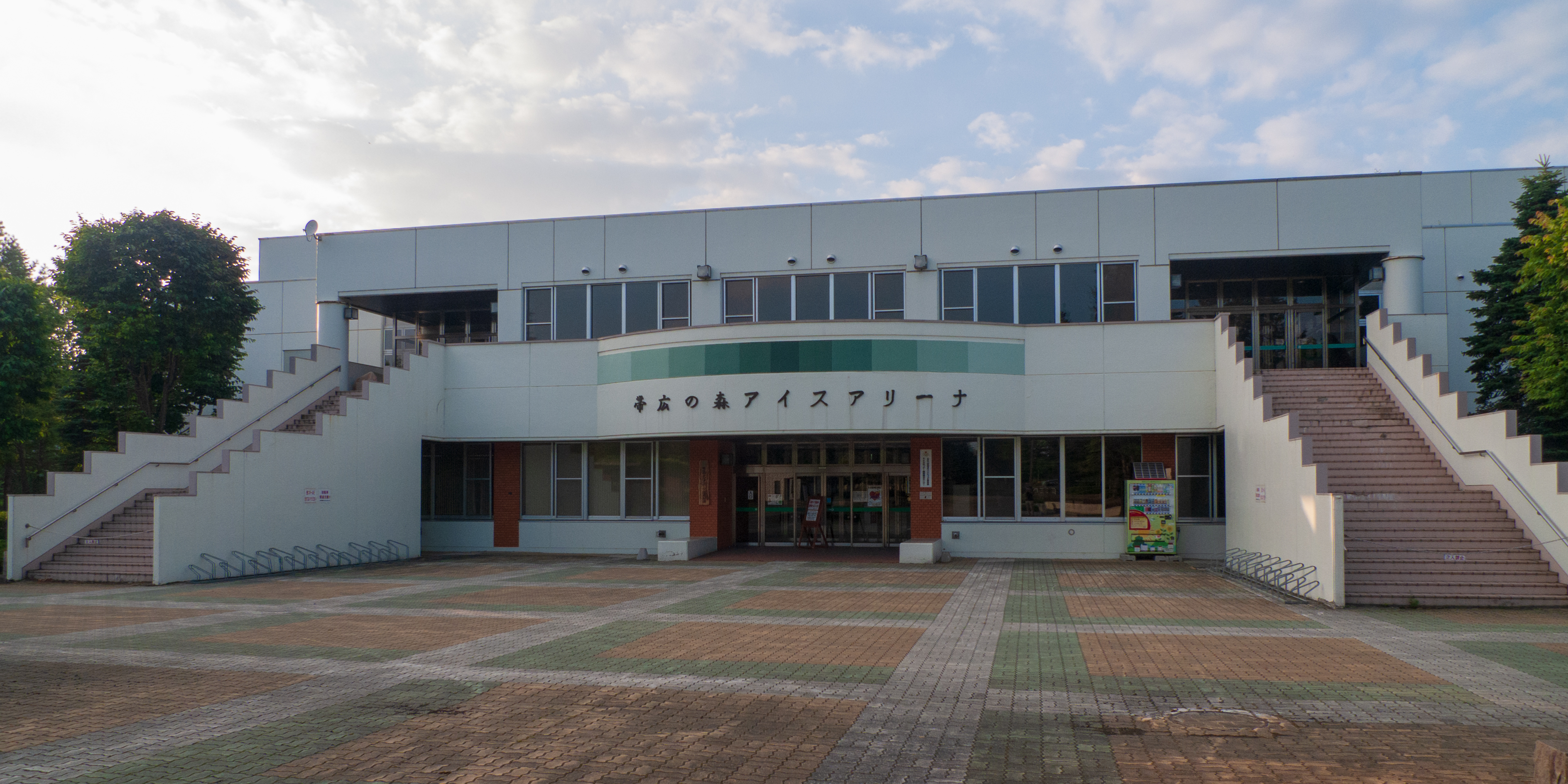 Obihiro no mori Ice Arena in Obihiro City, Hokkaido, Japan